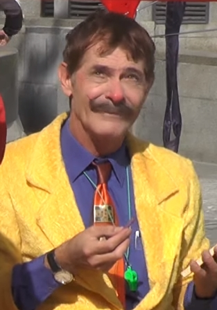 Boris Barsky, a Ukrainian comedian